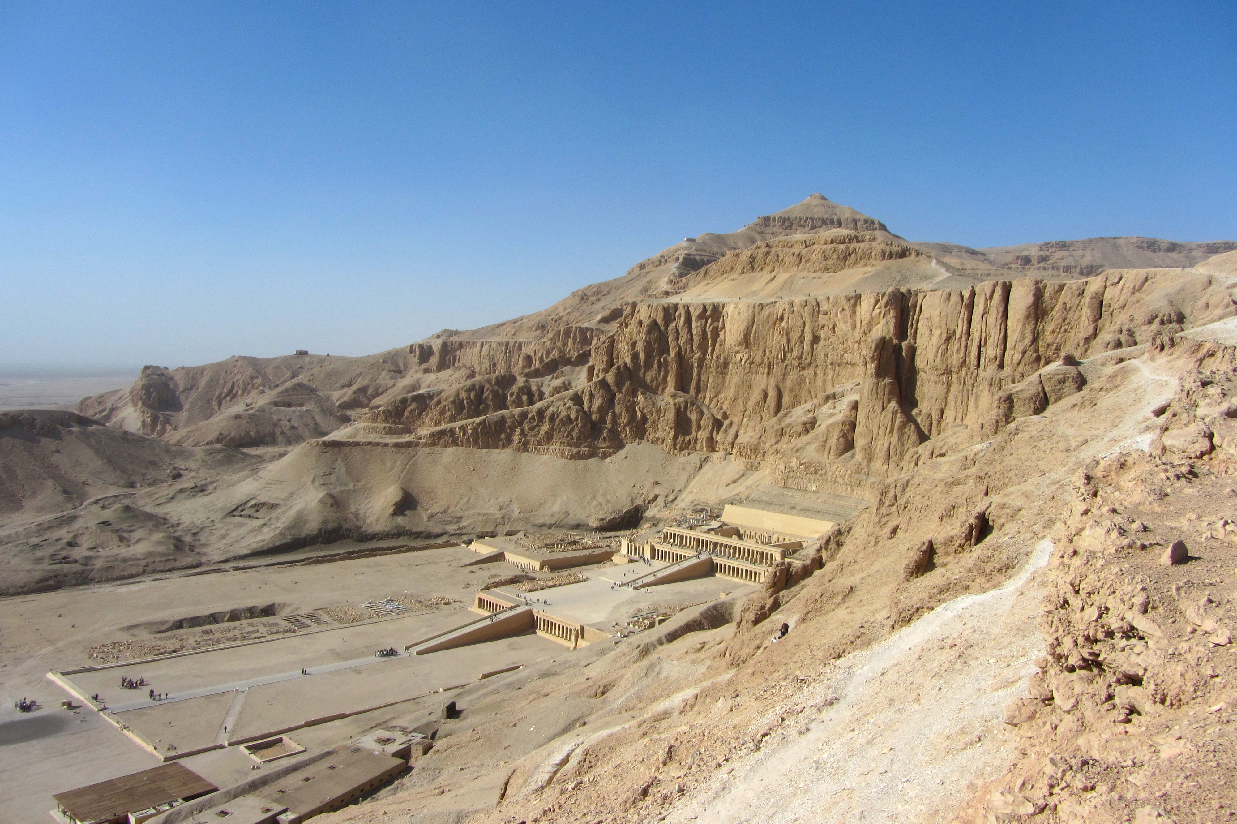 Temple of Hatshepsut 2012